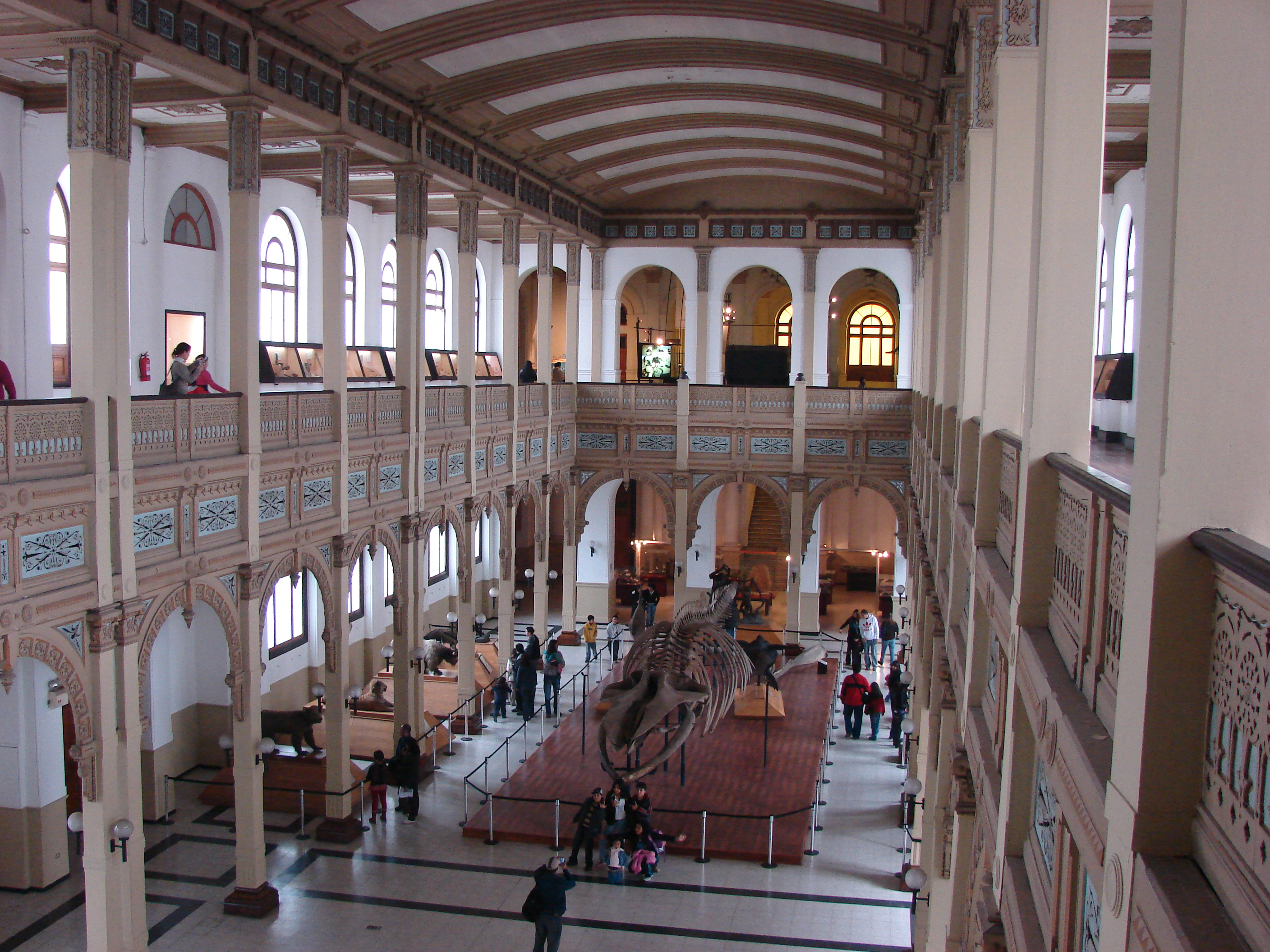 The main display hall at the National Museum of Natural History in Santiago, Chile with the centerpiece blue whale skeleton.